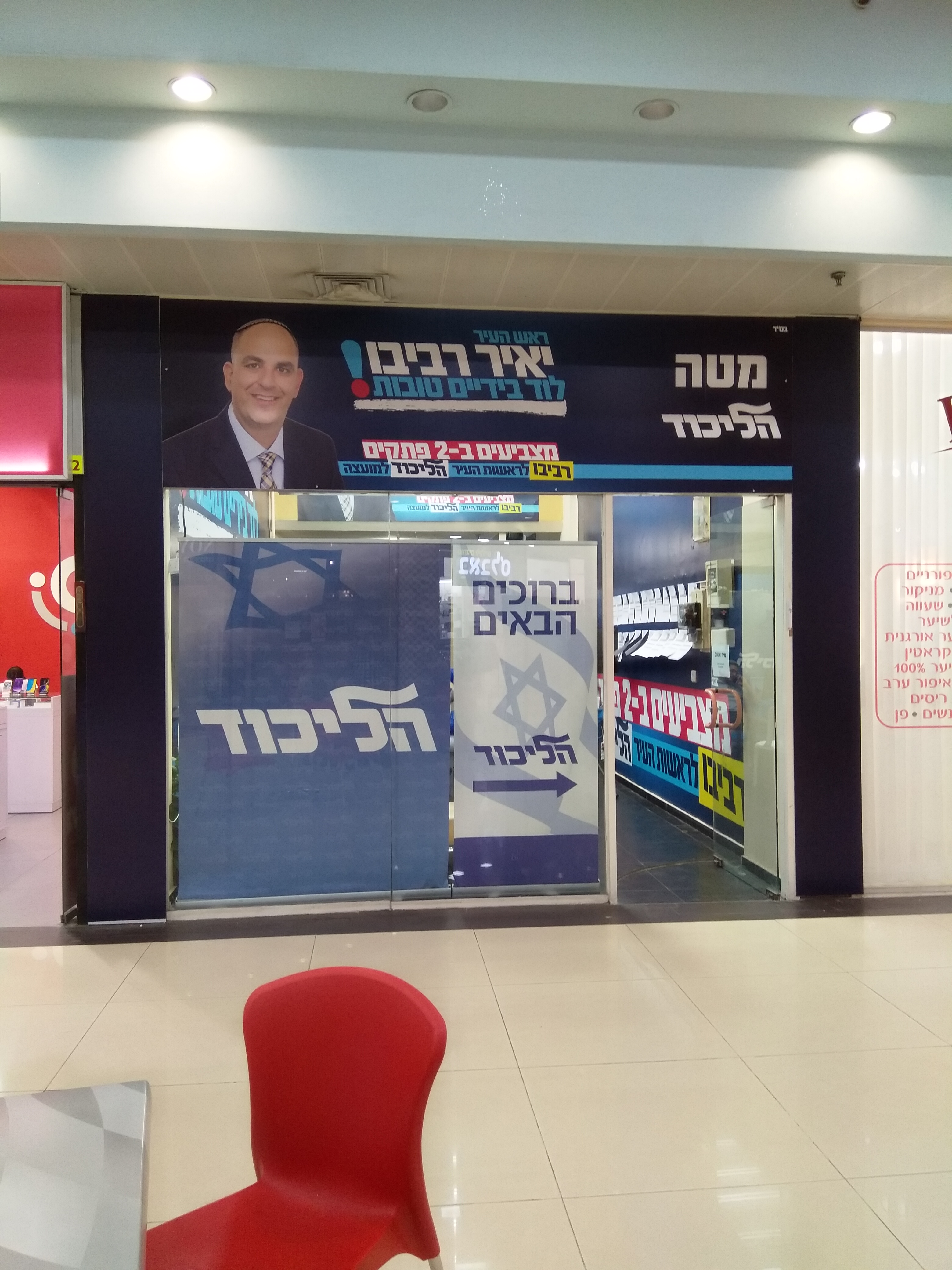 Central 2018 campaign headquarters of the Likud party in Lod, headed by mayor and mayoral candidate Yair Revivo, Lod Center shopping mall.